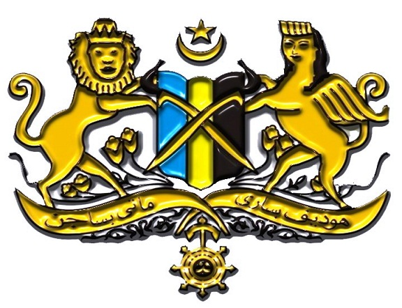 Aceh government seal which depicts buraq and lion